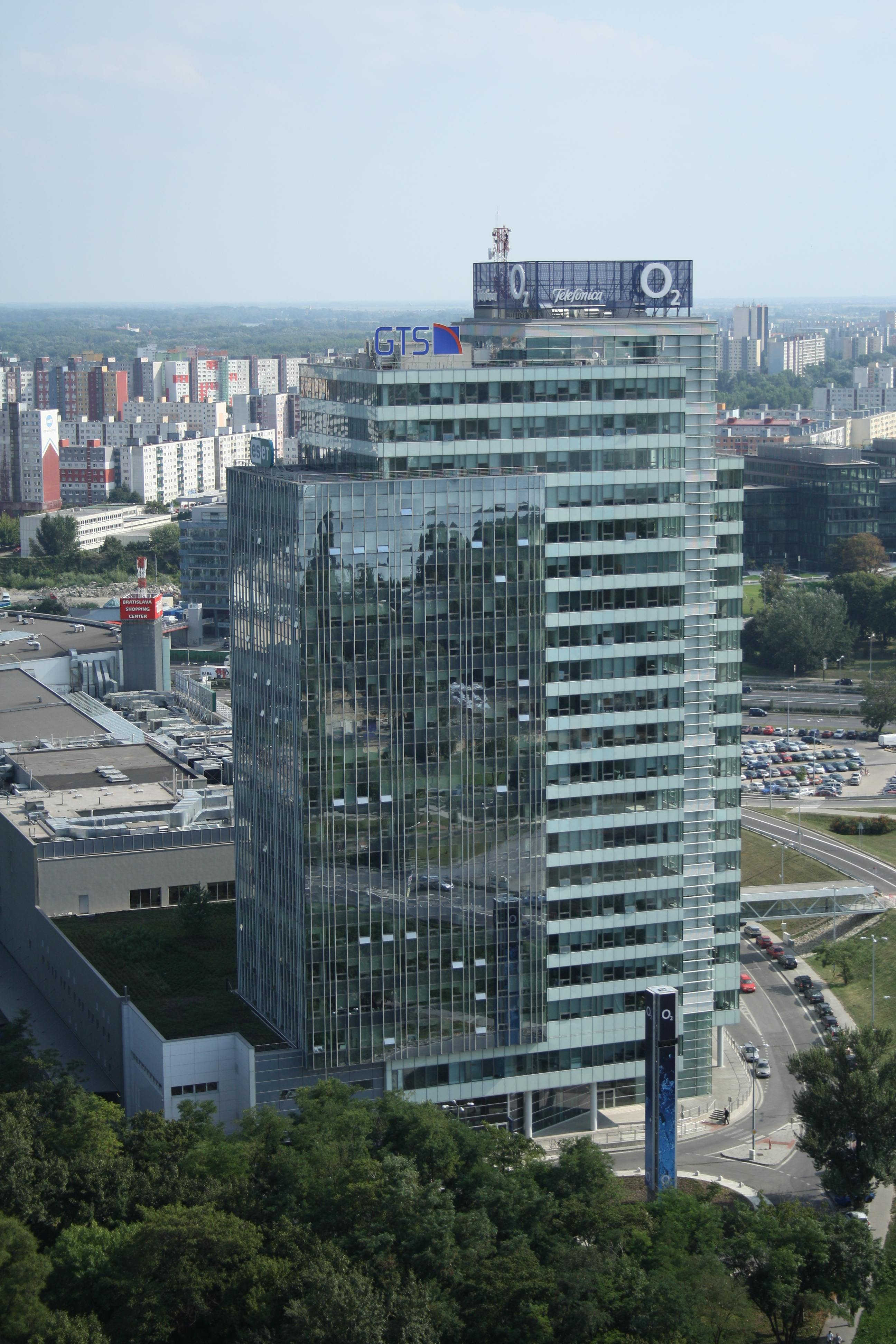 Aupark Tower in Bratislava, view from Nový Most viewpoint.